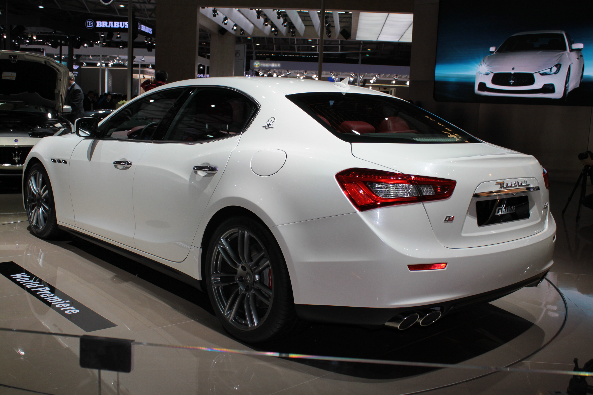 Maserati Ghibli III world premiere at AutoShanghai 2013